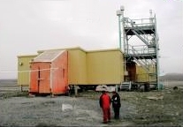 Meteorological Service of Canada Weather Observatory - Alert, Nunavut, Canada